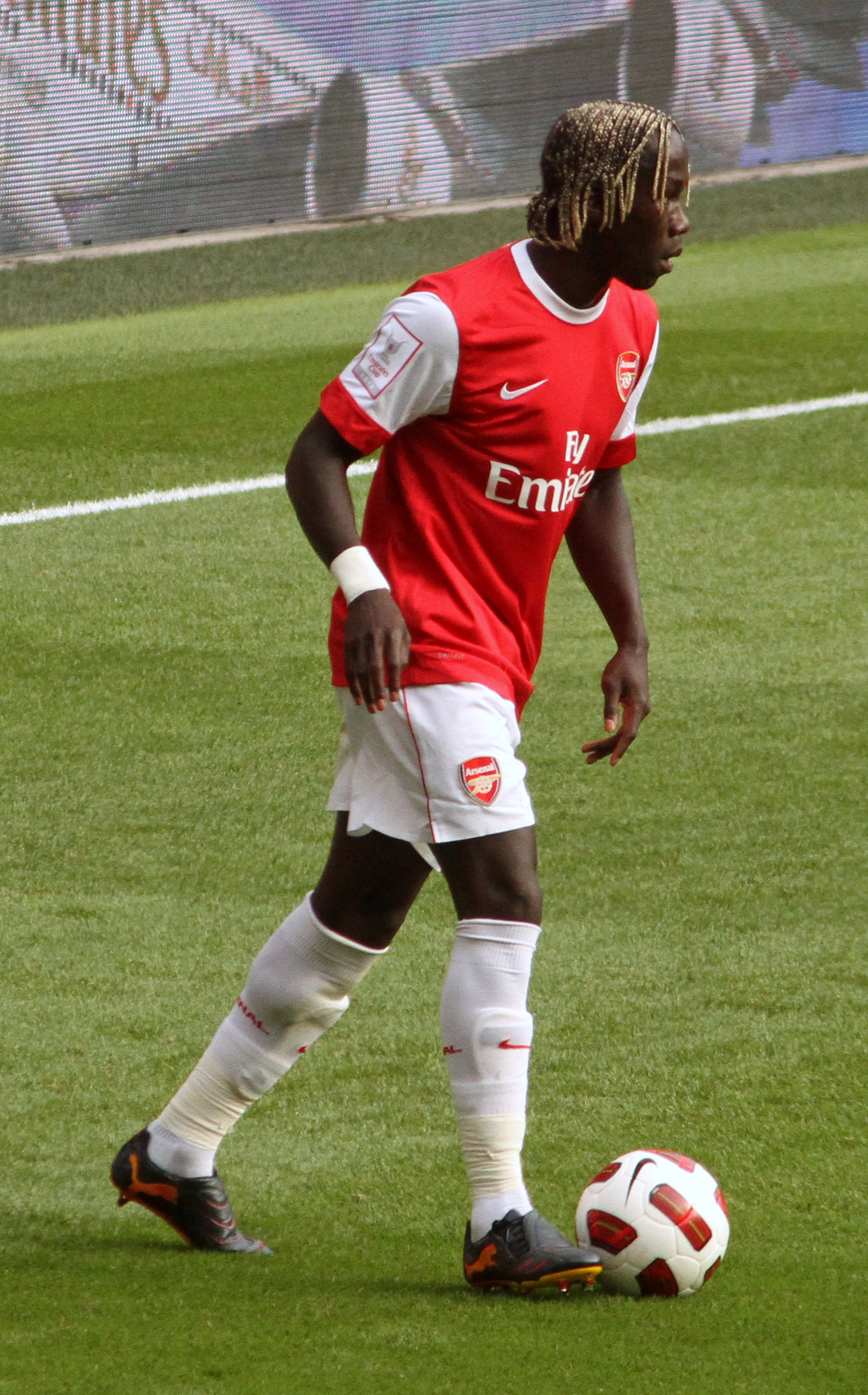 French football player Bacary Sagna while playing for Arsenal F.C.